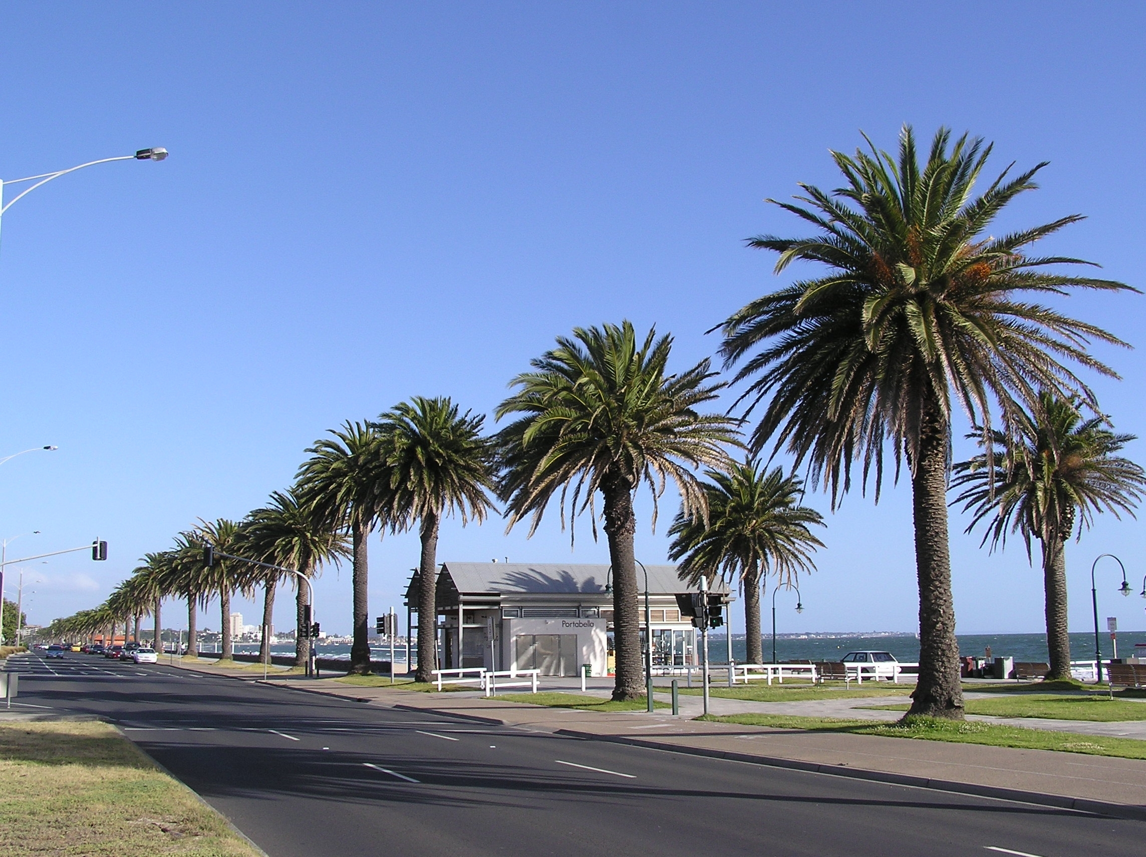 Beach road between Middle Park and Port Melbourne bayside foreshore promenade